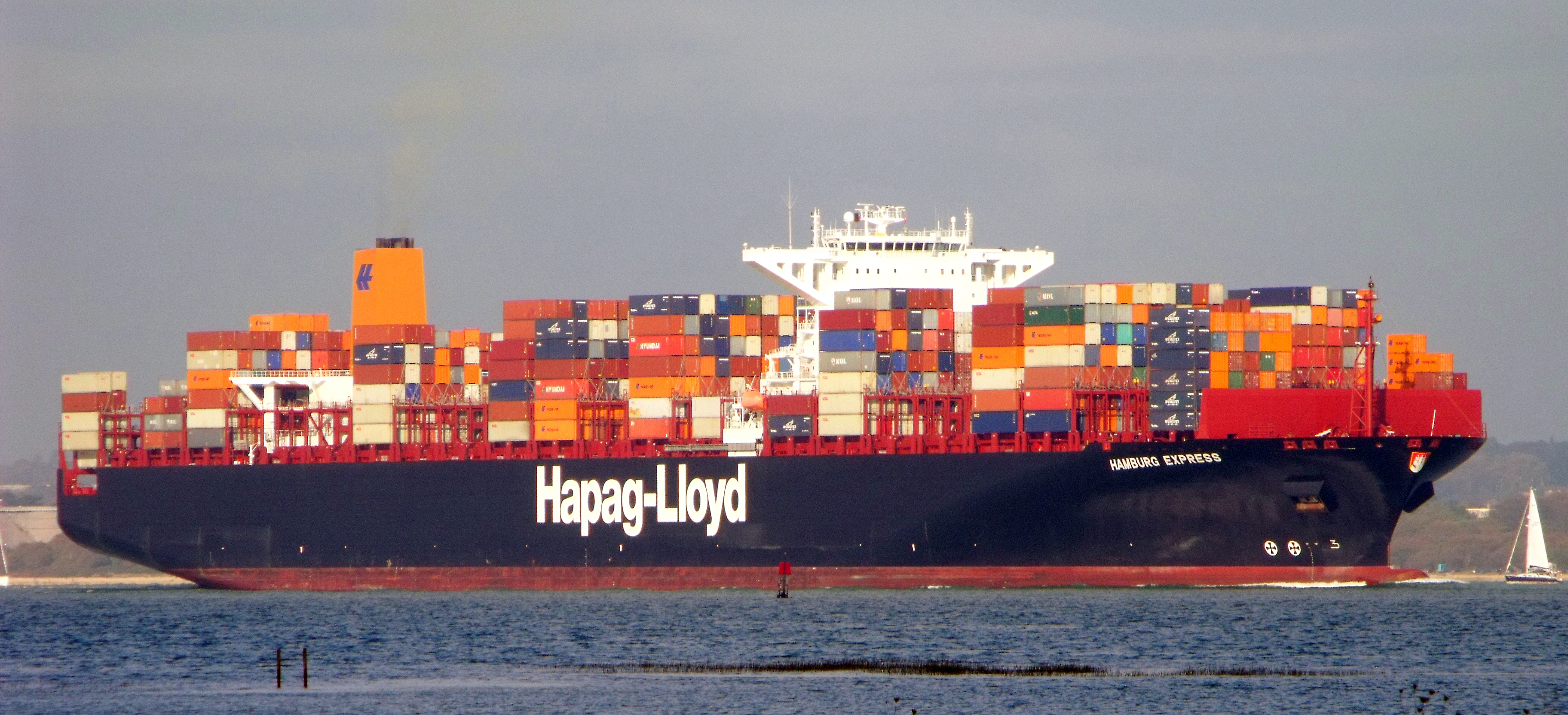 Near Calshot on the Test.